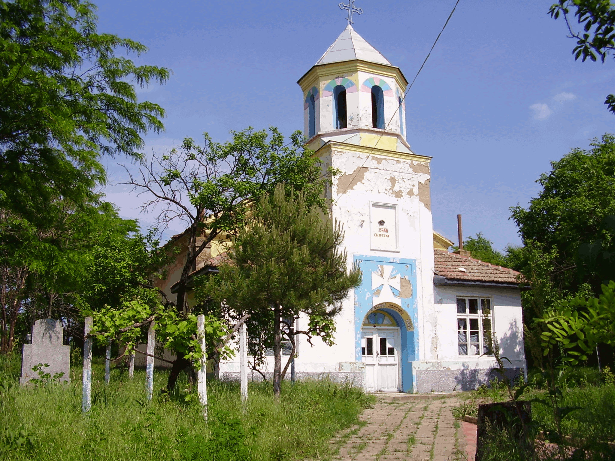 Church Saint Petka (1842), Brest, Plevenq Bulgaria